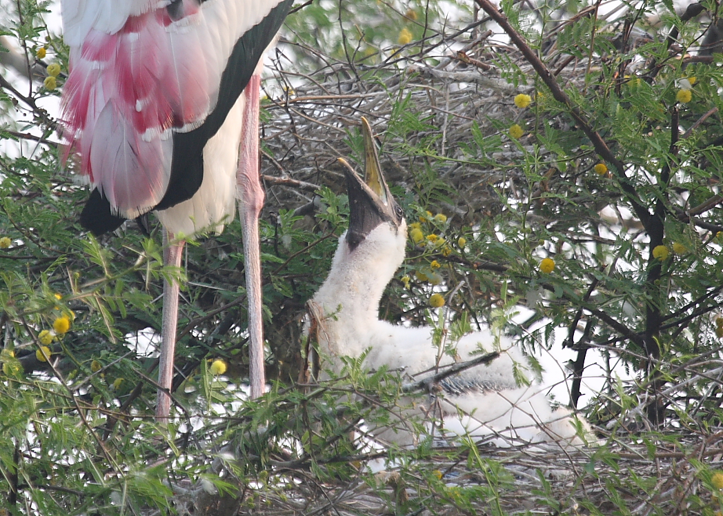 A young chick begs from an adult painted stork in the heronry at Keoladeo-Ghana National Park, Rajasthan